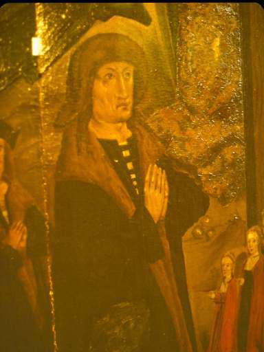 Thomas von Blankenfeld(e) vers 1490/peinture